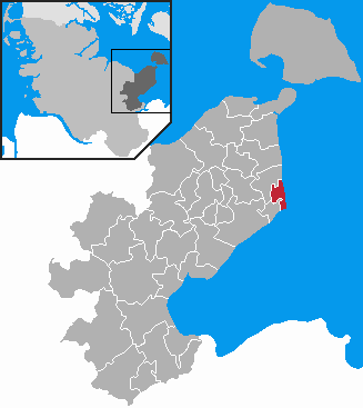 This map shows the area of the Gemeinde (municipality) Dahme in the Kreis (district) Ostholstein, Schleswig-Holstein, Germany.